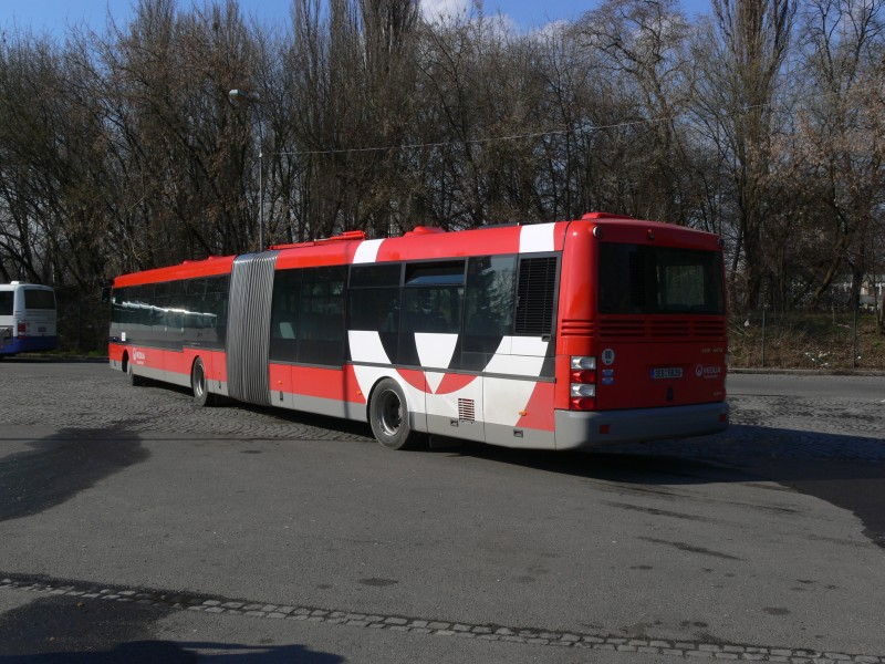 Articulated low-floor intercity bus SOR NC18; general bus station Pardubice (CZ).